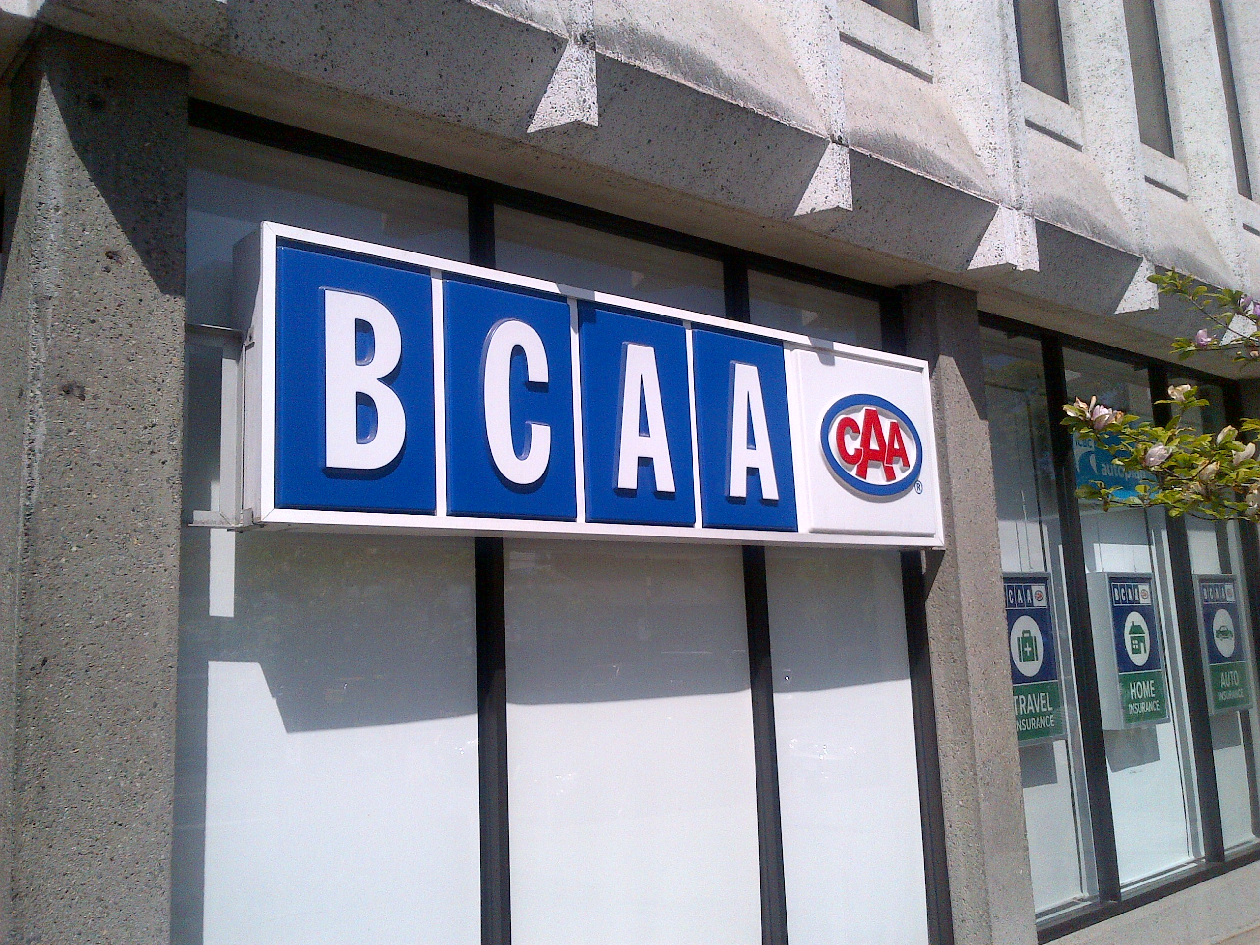 Street view of BCAA (British Columbia Automobile Association) office